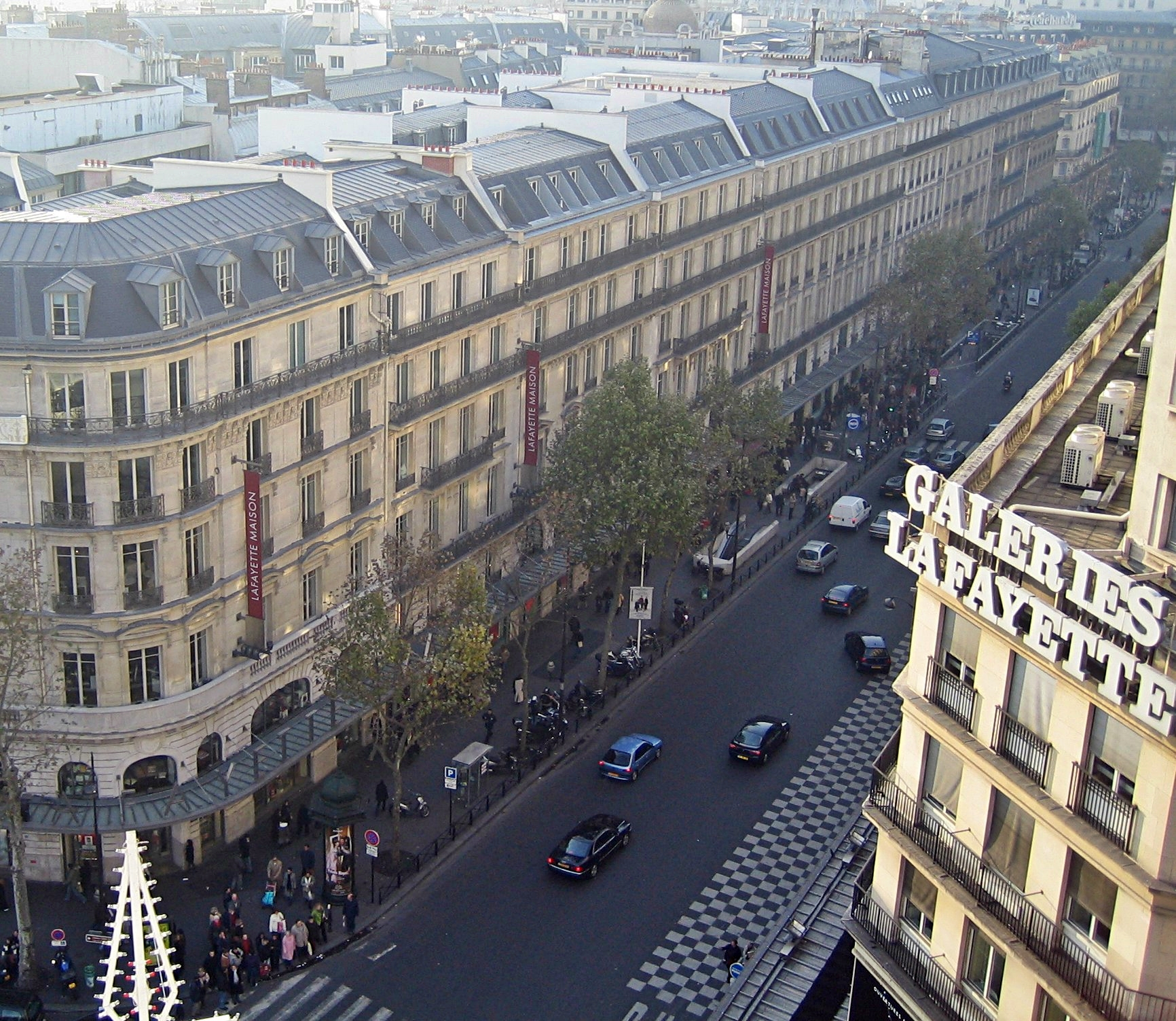 Boulevard Haussmann in Paris, seen from the roof of Galeries Lafayette.